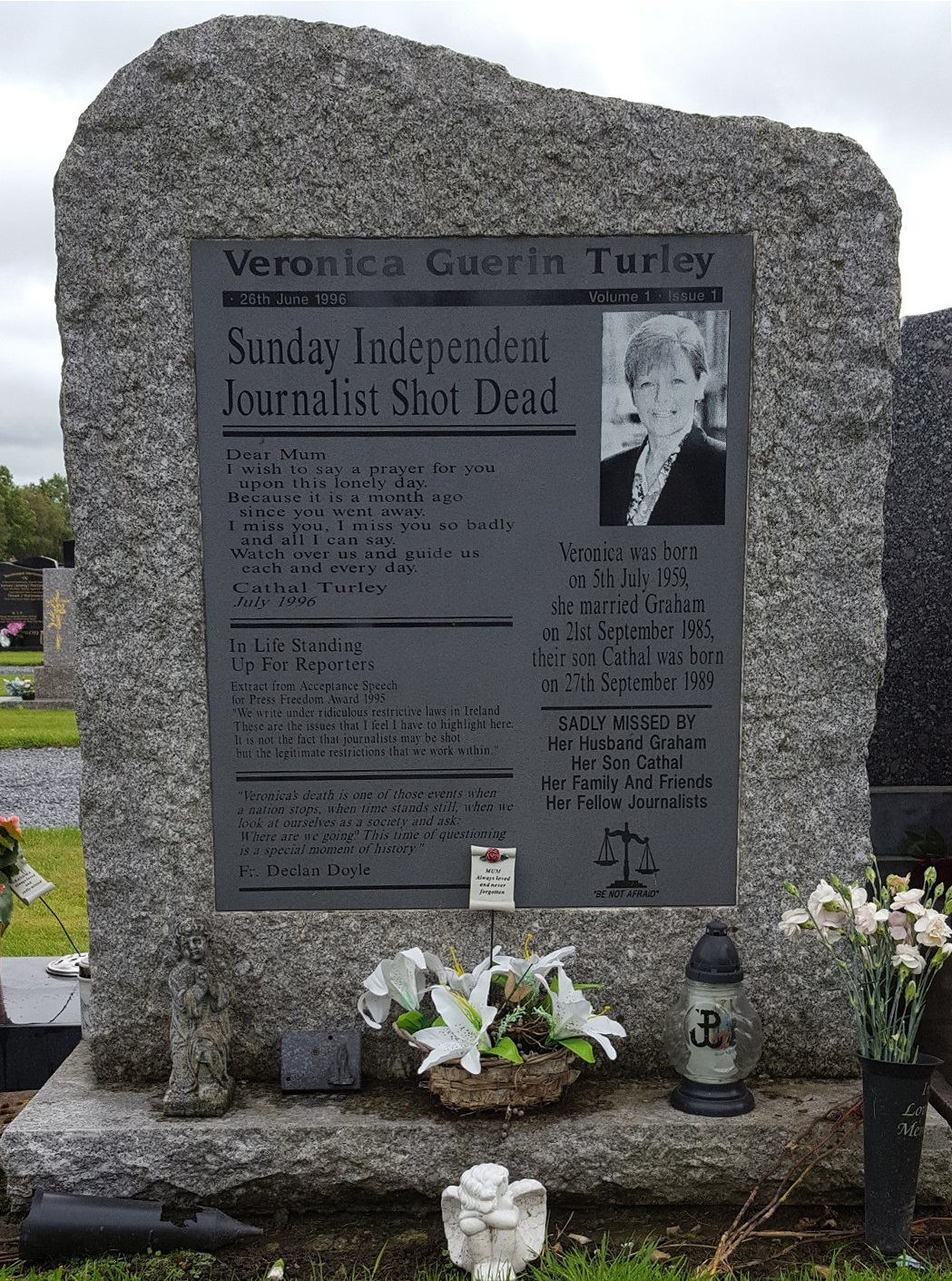 Veronica Guerin was buried in Dardist Cemetery. This cemetery is in the vicinity of Dublin International Airport.